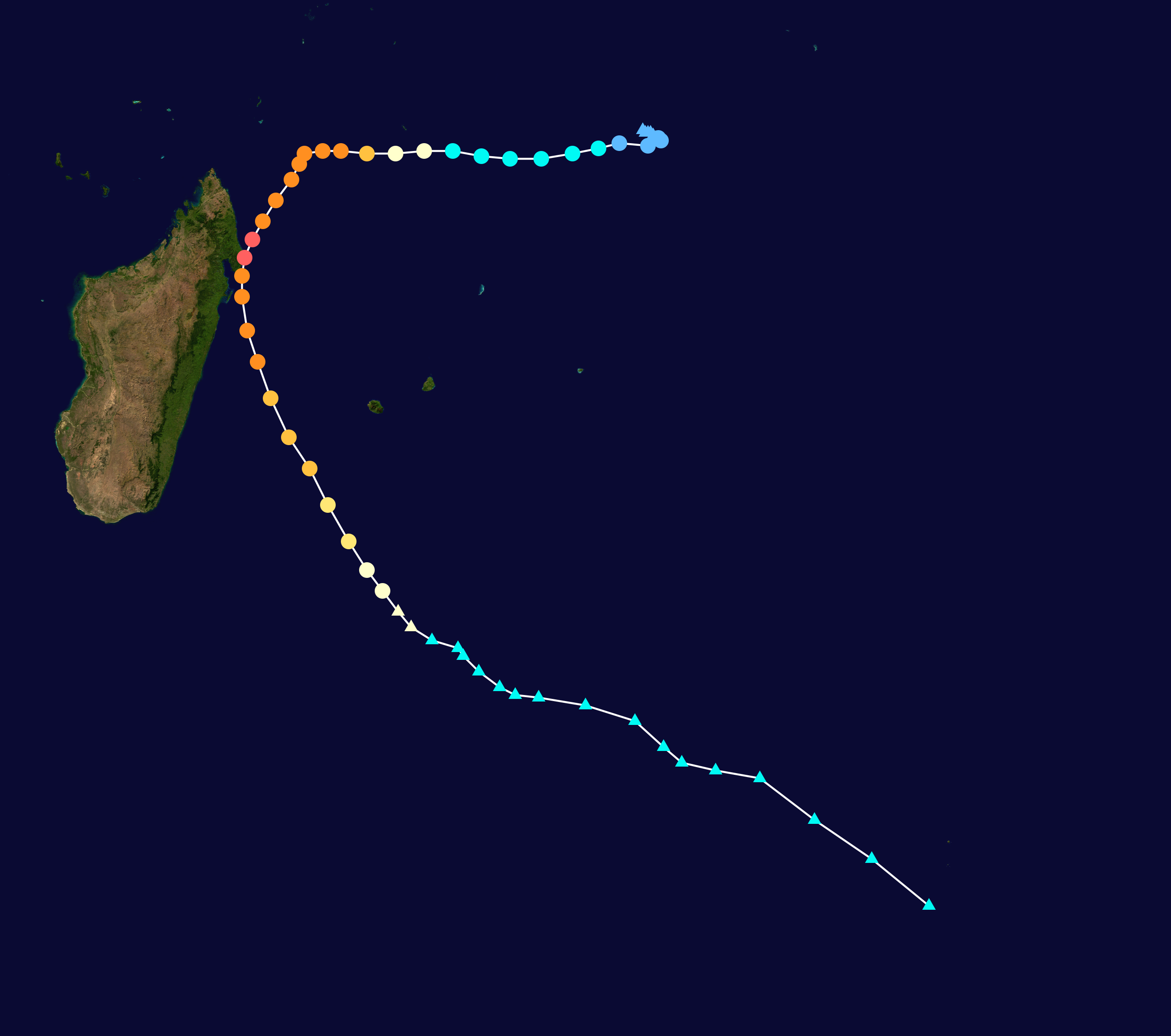 Cyclone Hary (2002) track. Uses the color scheme from the Saffir-Simpson Hurricane Scale.